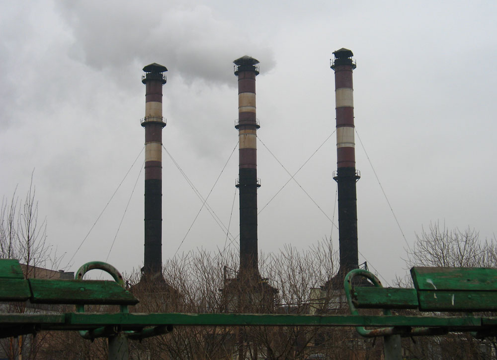 Recreation area near industrial zone in Minsk.